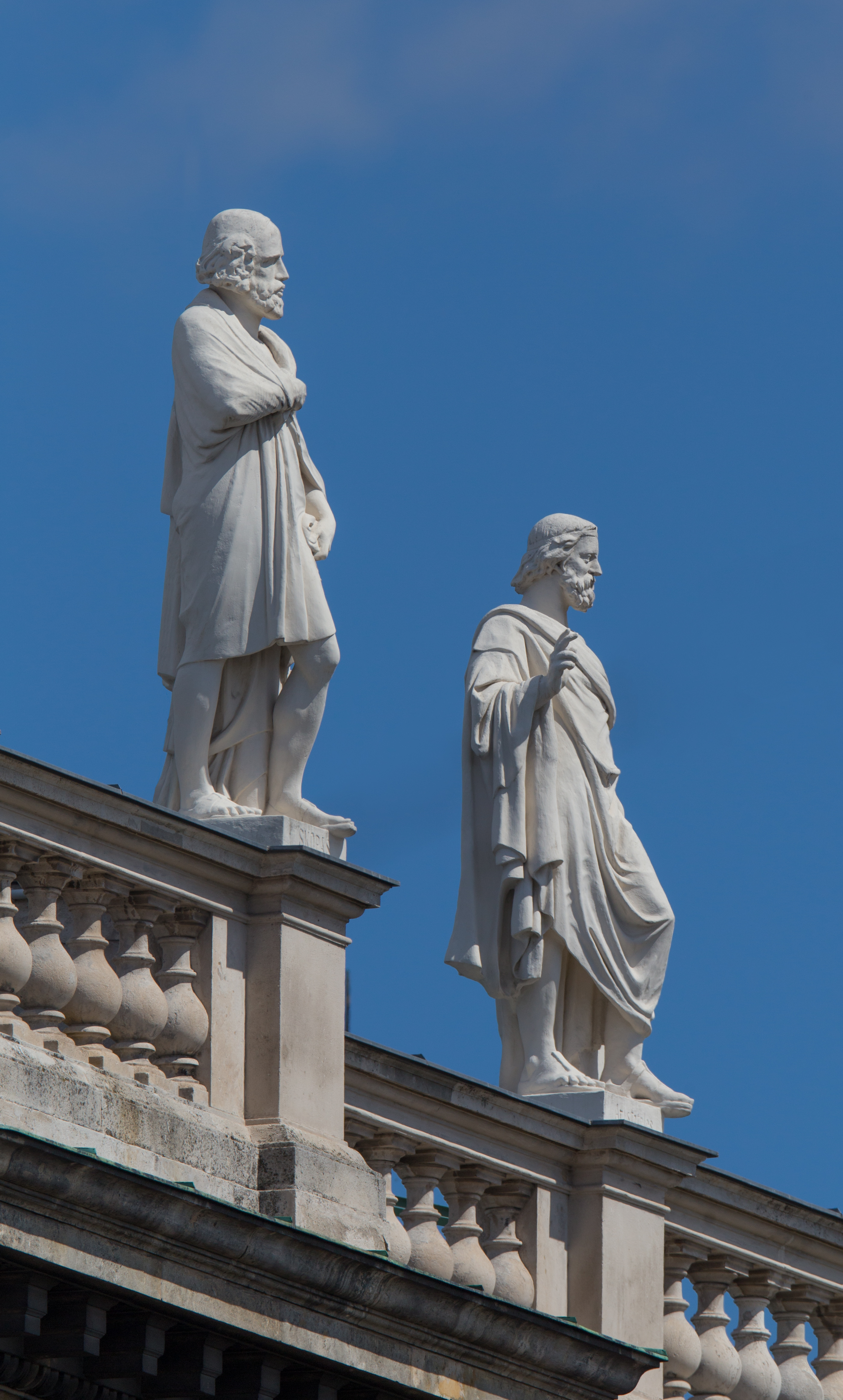 Kunsthistorisches Museum in Vienna Figures on the roof, Skopas and Aristoteles The making of this work was supported by Wikimedia Austria. For other files made with the support of Wikimedia Austria, please see the category Supported by Wikimedia Österreich.